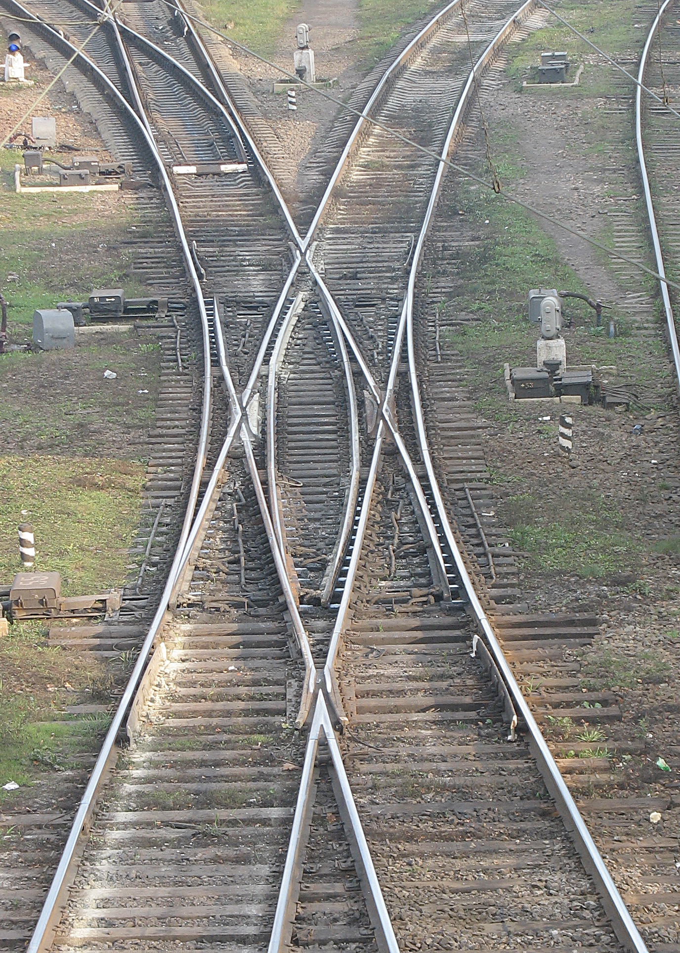 Double slip switch in Shepetivka station, Ukraine